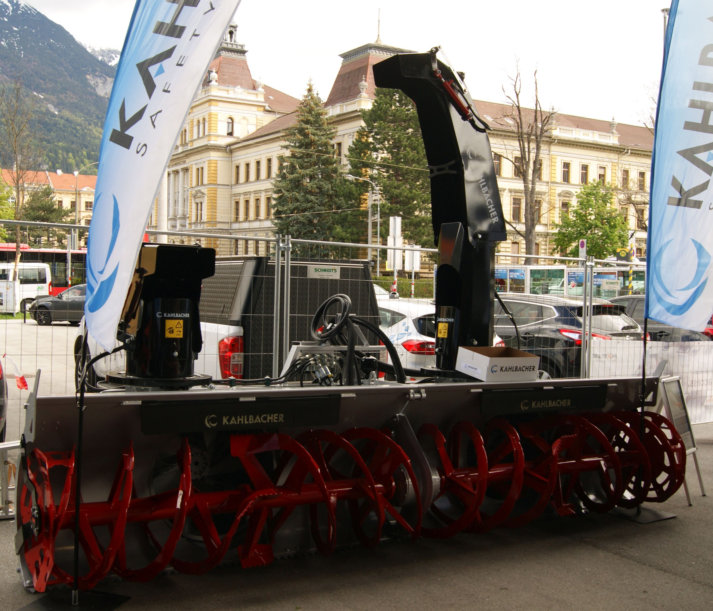 Kahlbacher snow blower at the Interalpin, exhibition in Innsbruck in Tyrol, Austria.